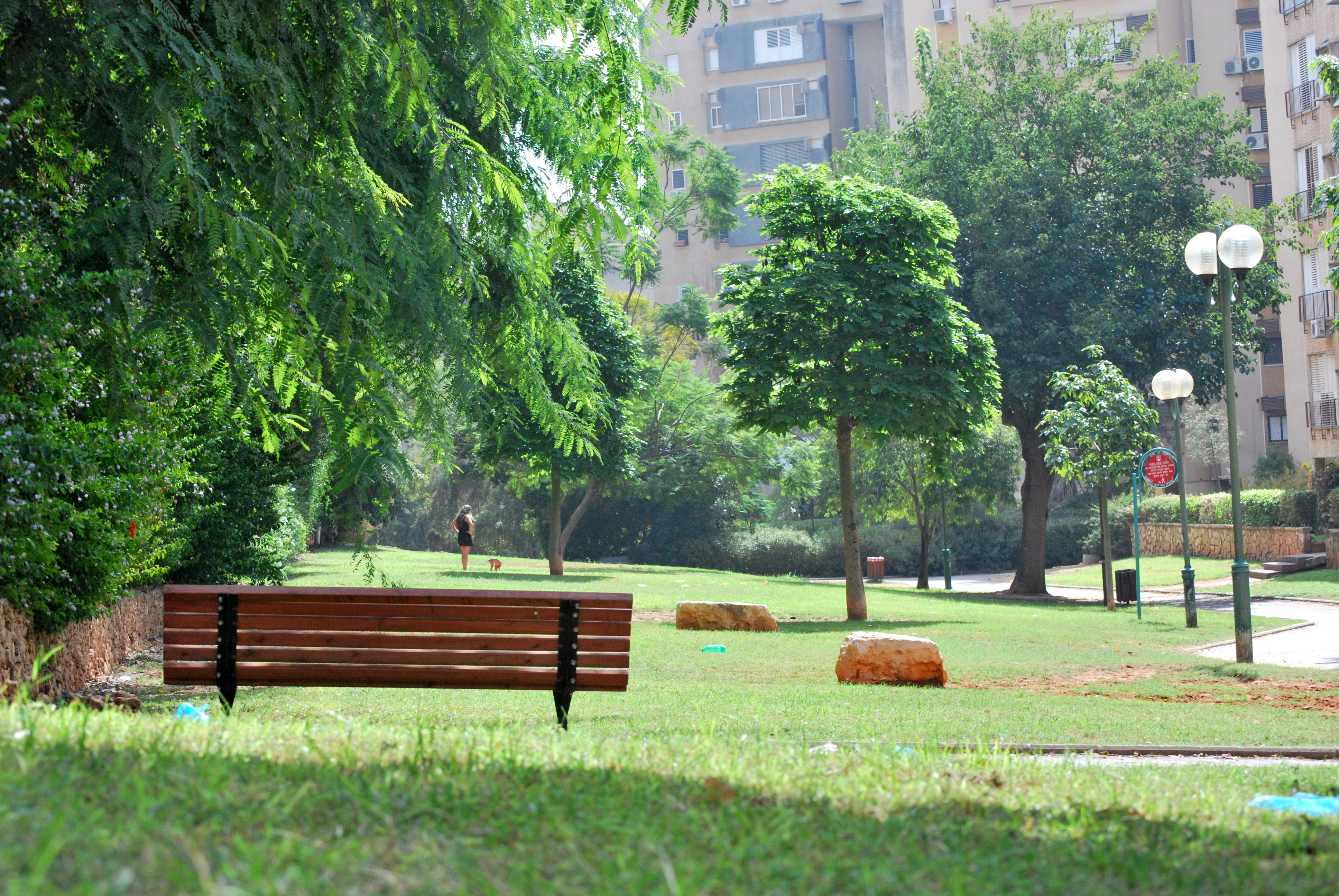 Houtecker boulevard in Hod HaSharon, Israel.